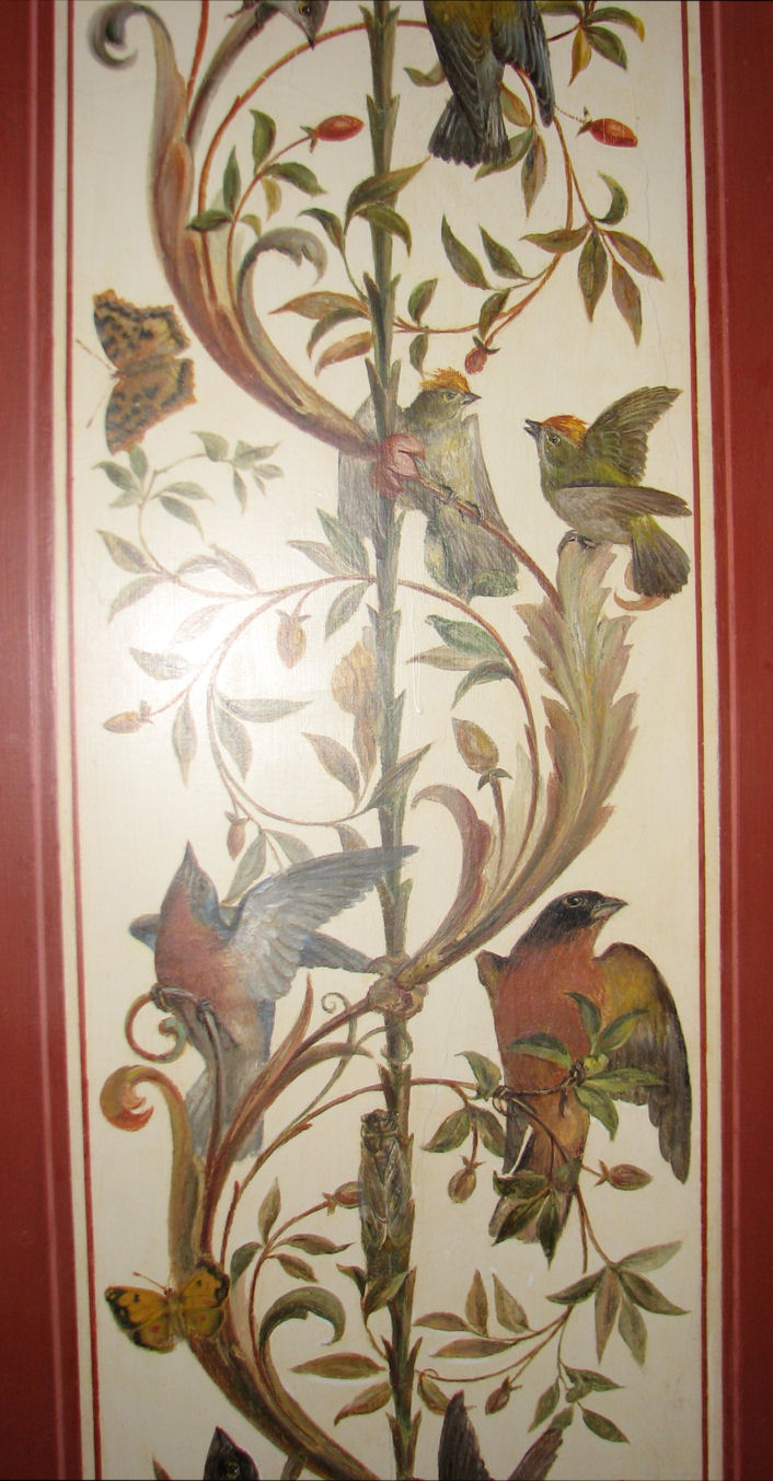 Photograph in detail of song birds and butterflies in the Brumidi Corridors in the United States Capitol, taken by Rebel At|, on June 23rd, 2007.